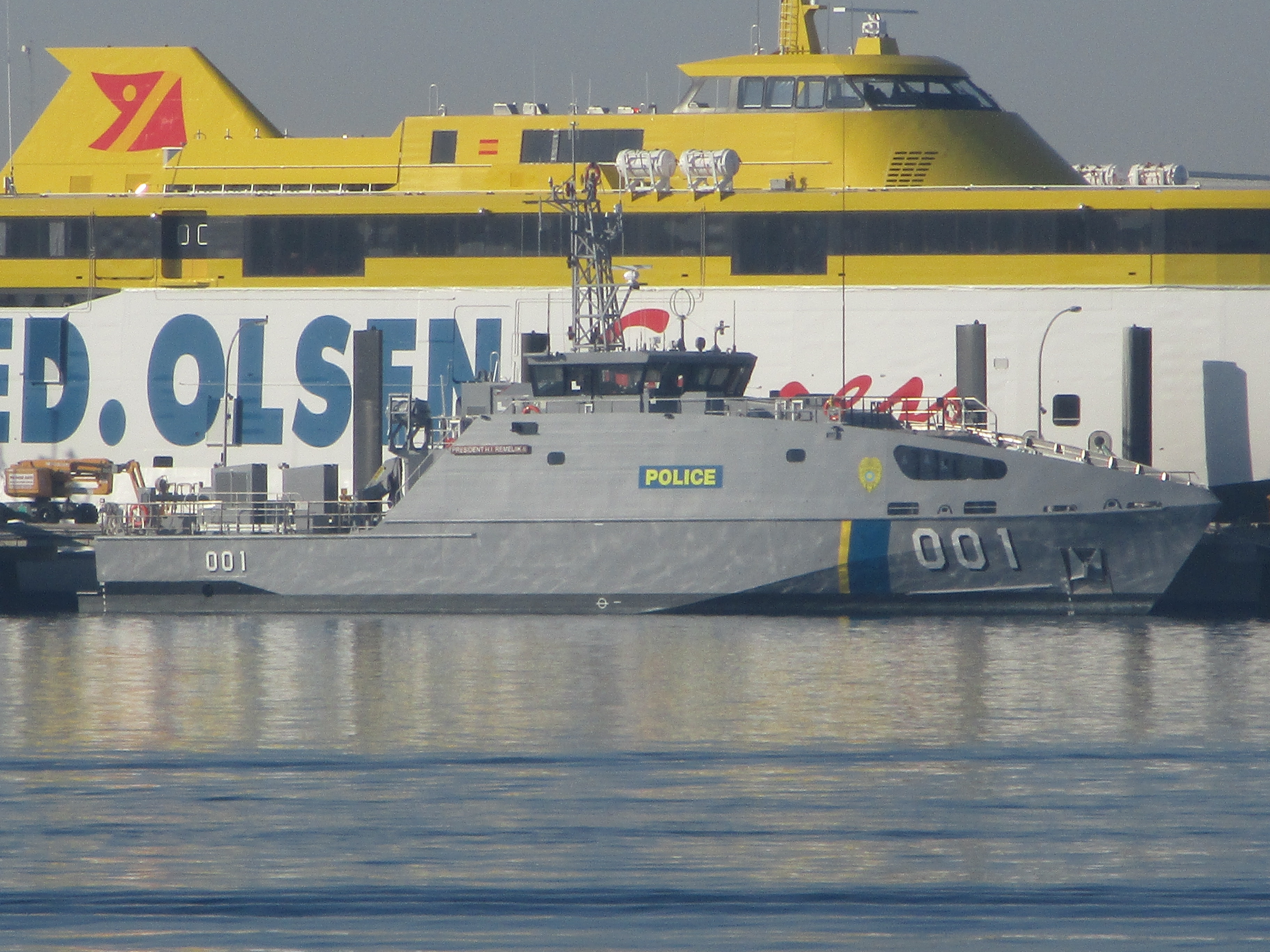 The PSS Remeliik II, a Guardian class patrol boat, at Austal shipyards in Henderson, Western Australia. The ship in the background is the Bajamar Express.